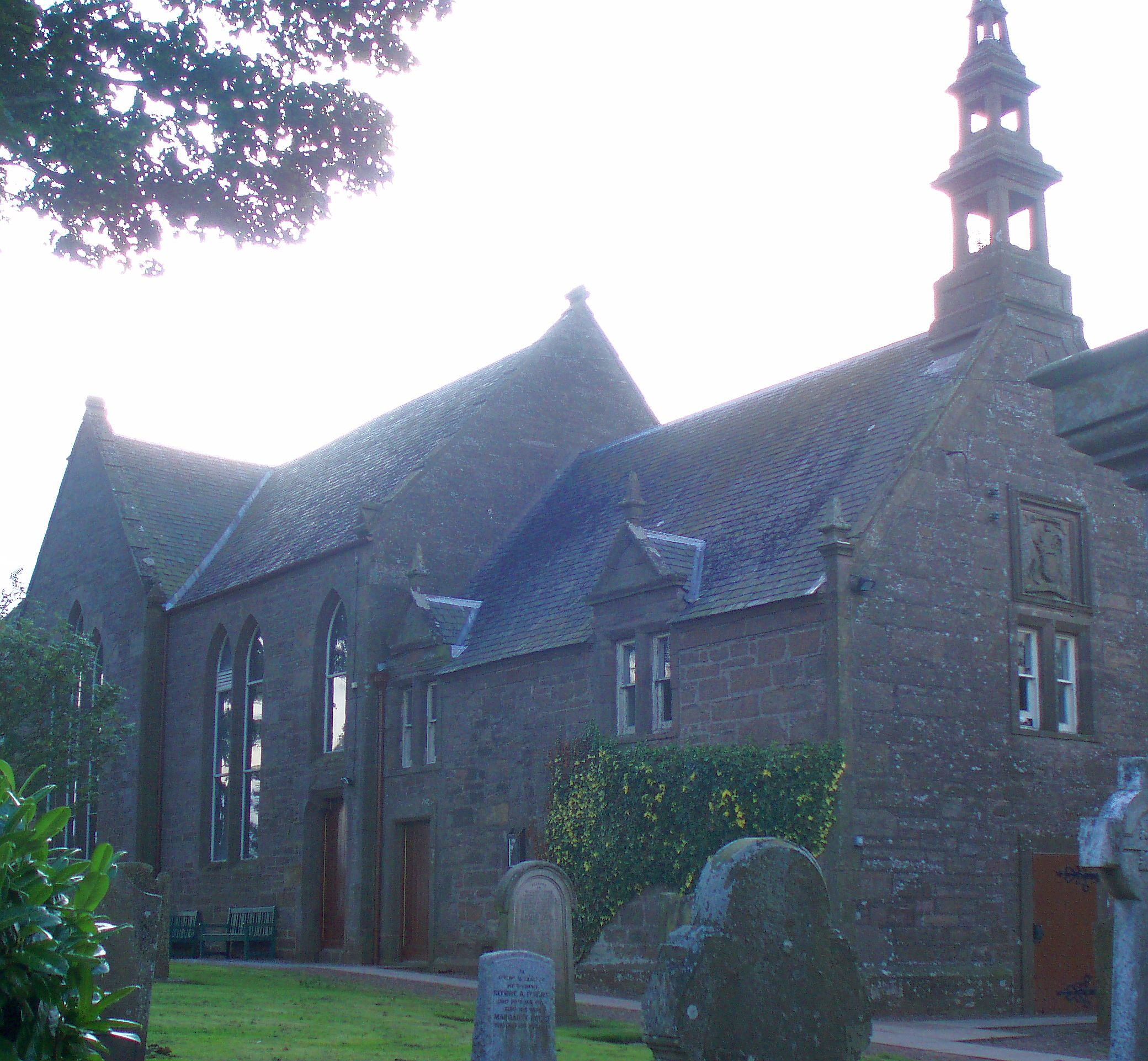 Panbride Parish Church